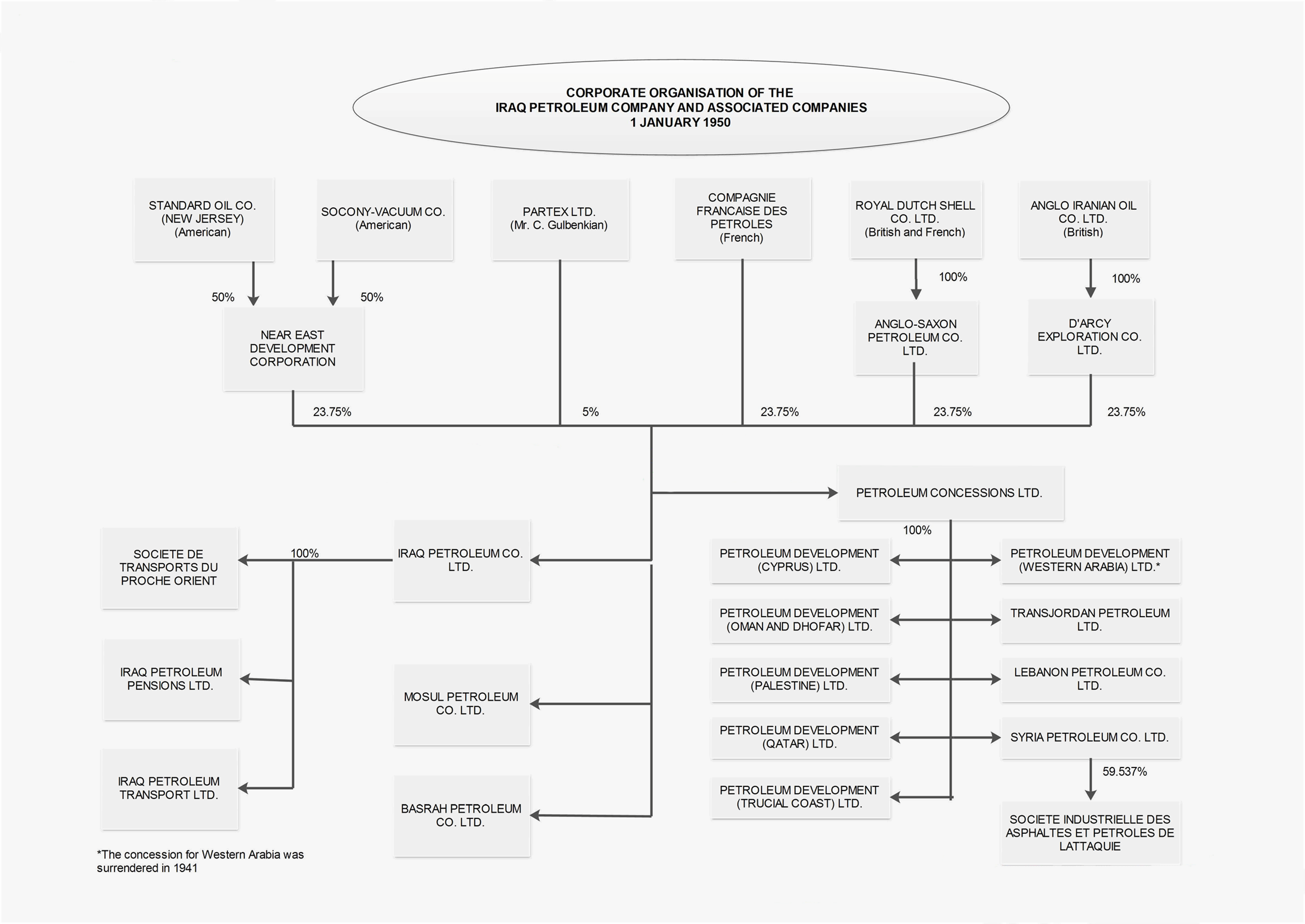 Chart showing the companies of the IPC group